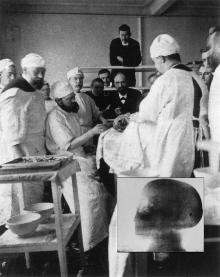 Professor Karl Gustav Lennander in 1897, removing a pistol bullet from the occipital lobe of the brain in a young man after the foreign body had been localized by X-ray. Photo: Medical Historical Museum, Uppsala.